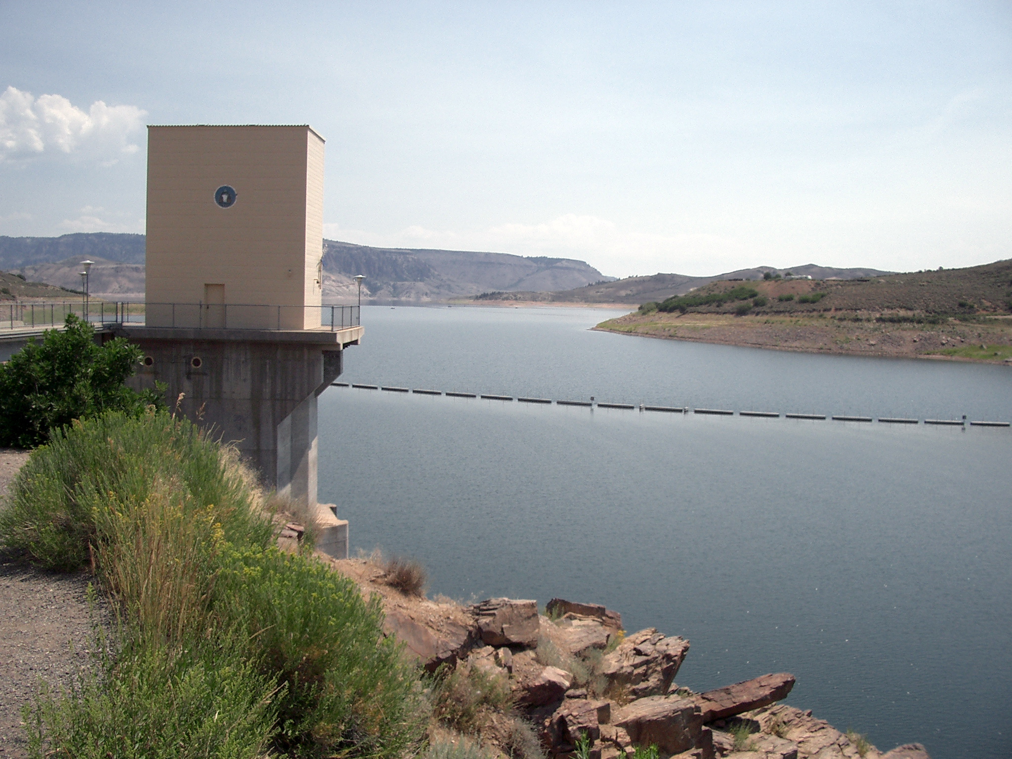 Blue Mesa Dam